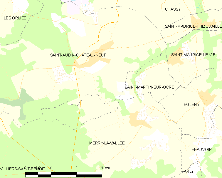 Map of French municipality Saint-Martin-sur-Ocre